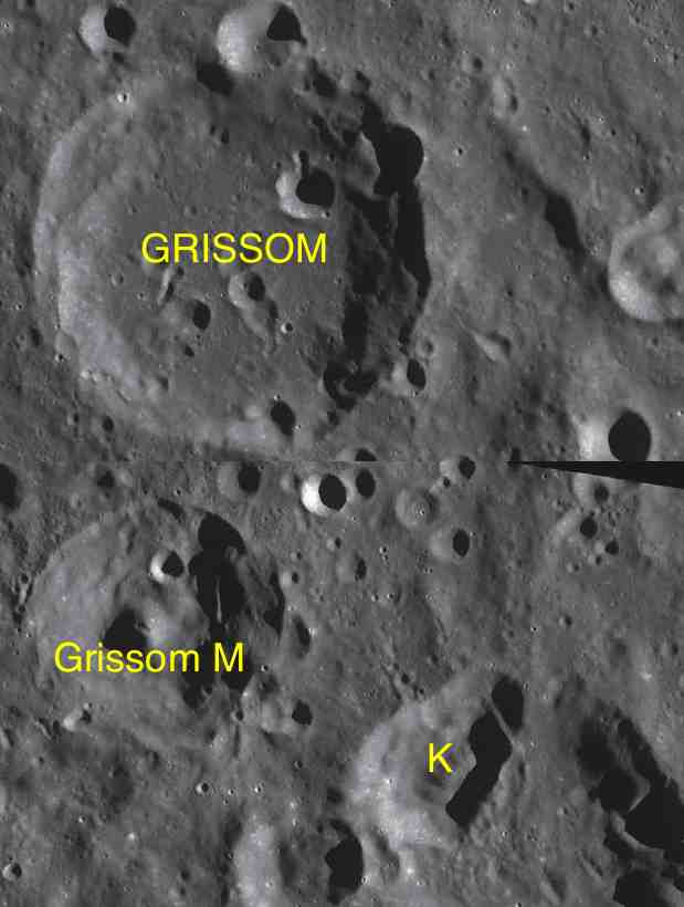 Parts of the charts LAC-121, LAC-133 used for the presentation